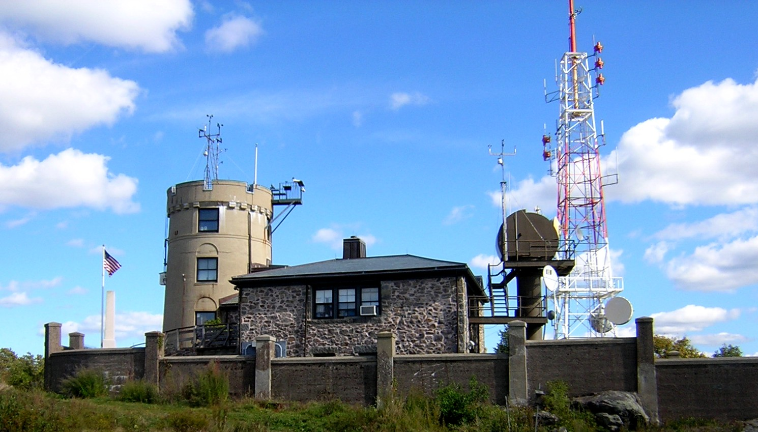 Great Blue Hill Weather Observatory, Milton, MA.